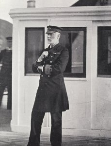 Admiral lord Walter Kerr. Taken by a Royal Navy official photograph in 1895.